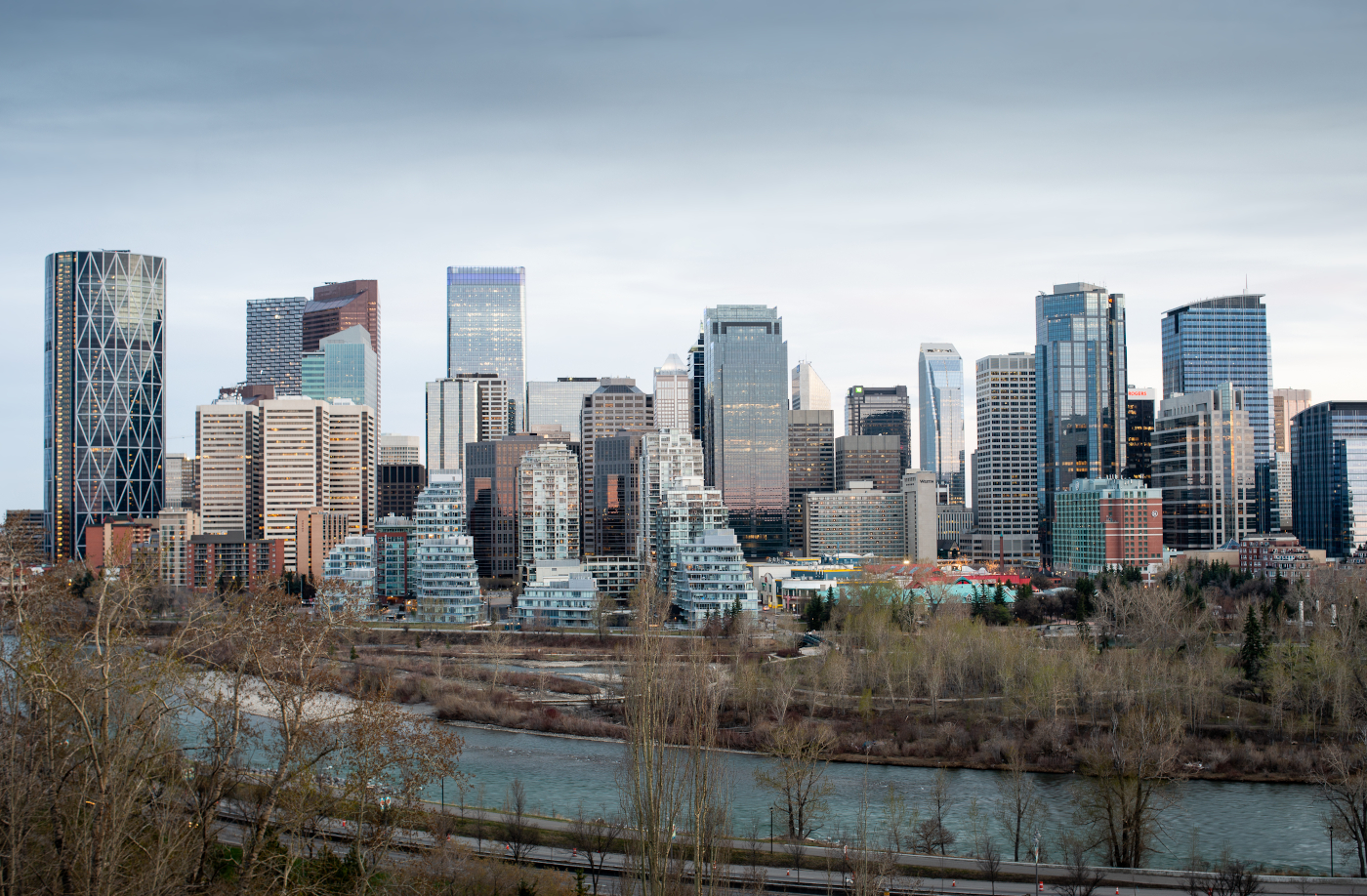 Central portion of Calgary skyline, taken from the northwest.